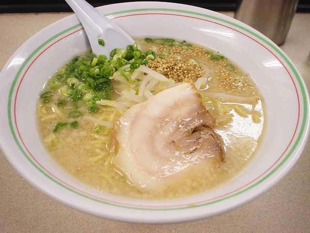 Hakatara-men